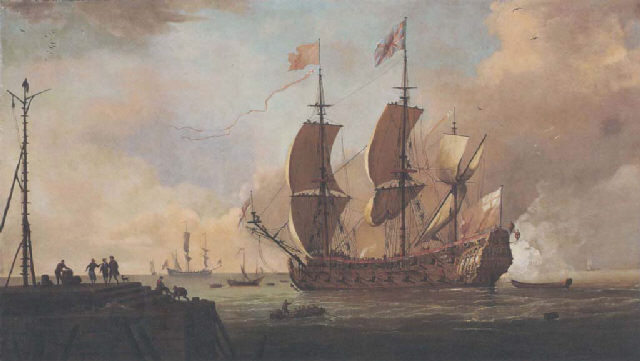 1A British Fifth Rate signalling its arrival at a Continental Port.